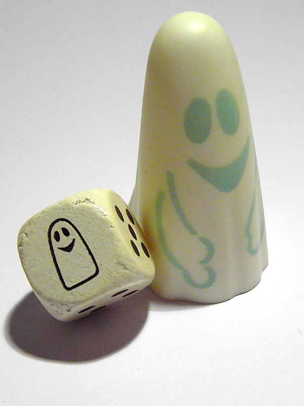 Game material for parlor game Mitternachtsparty.